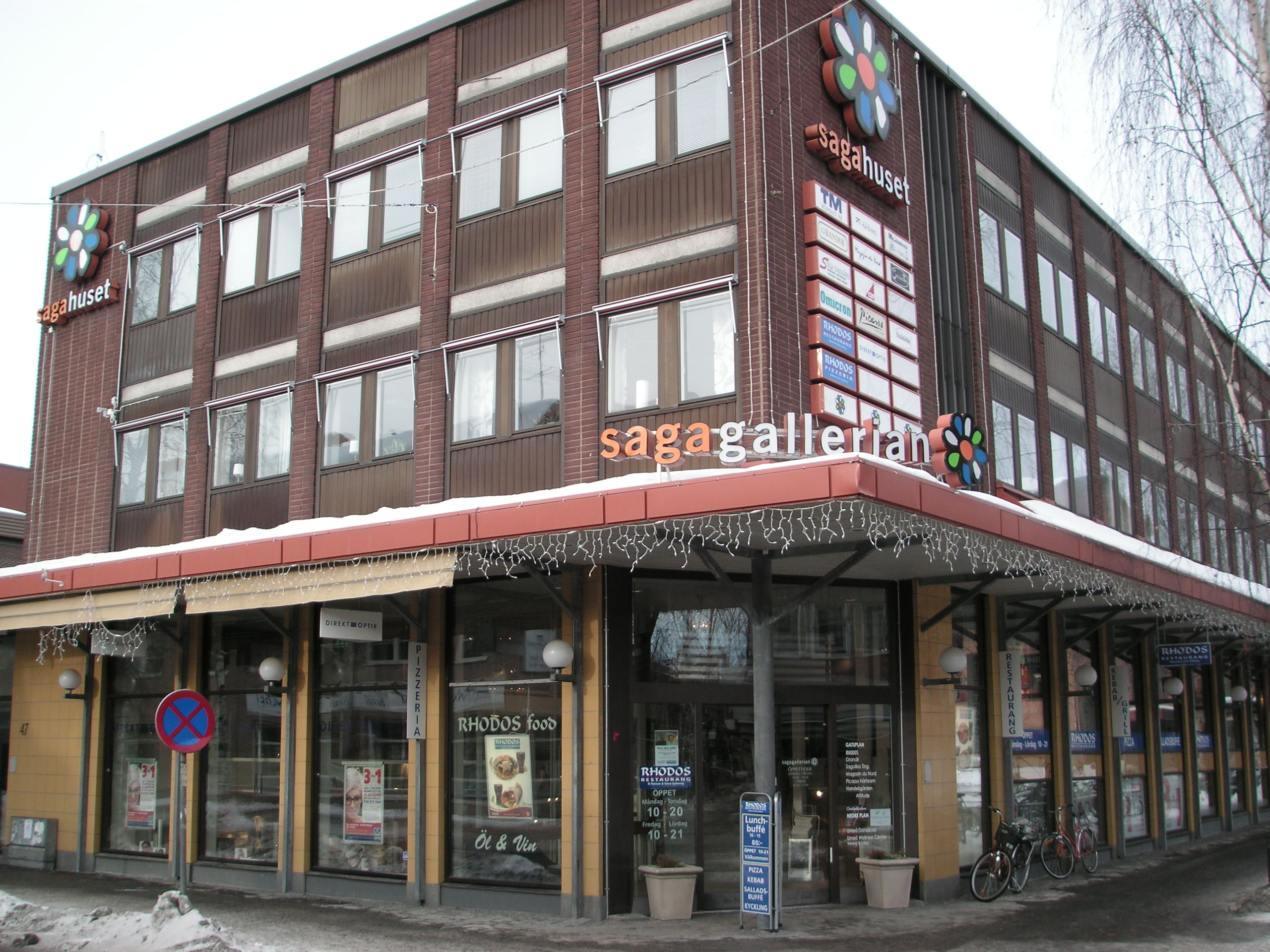 Shopping mall "Sagagallerian" in Umeå, Sweden.